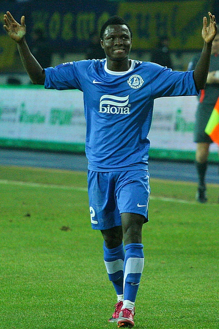 Samuel Inkoom